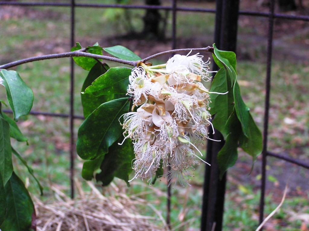 Maniltoa lenticellata. This photo was taken by a friend of mine, Sandy Lloyd, who has given me permission to use it so long as attribution is given. I have sent an email with copies of correspondence between us in which she give permission for its use